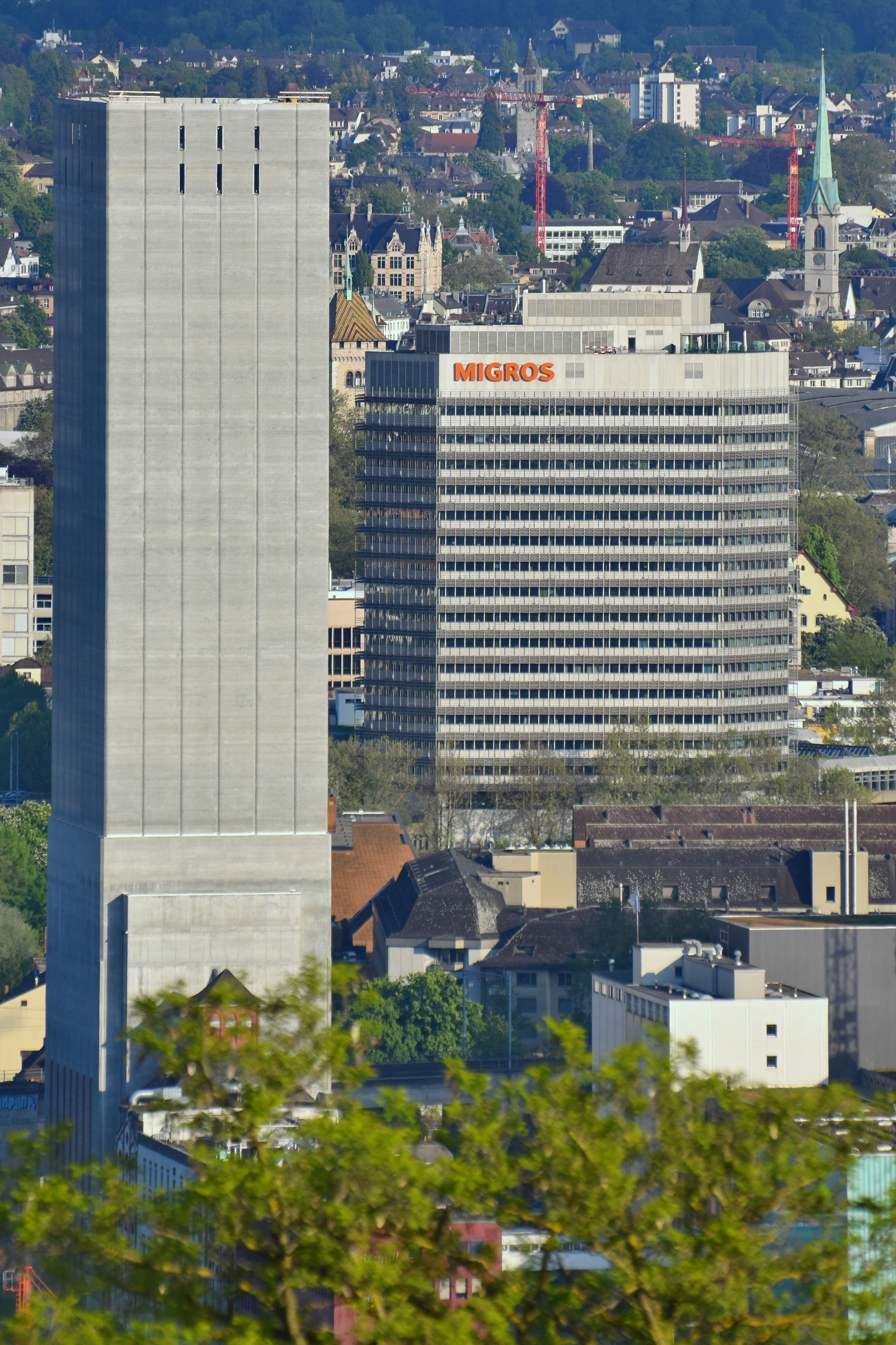 The Swissmill Tower (left) and Migros-Hochaus (right), in Zürich respectively in the Limmat Valley, as seen from the Käferberg.